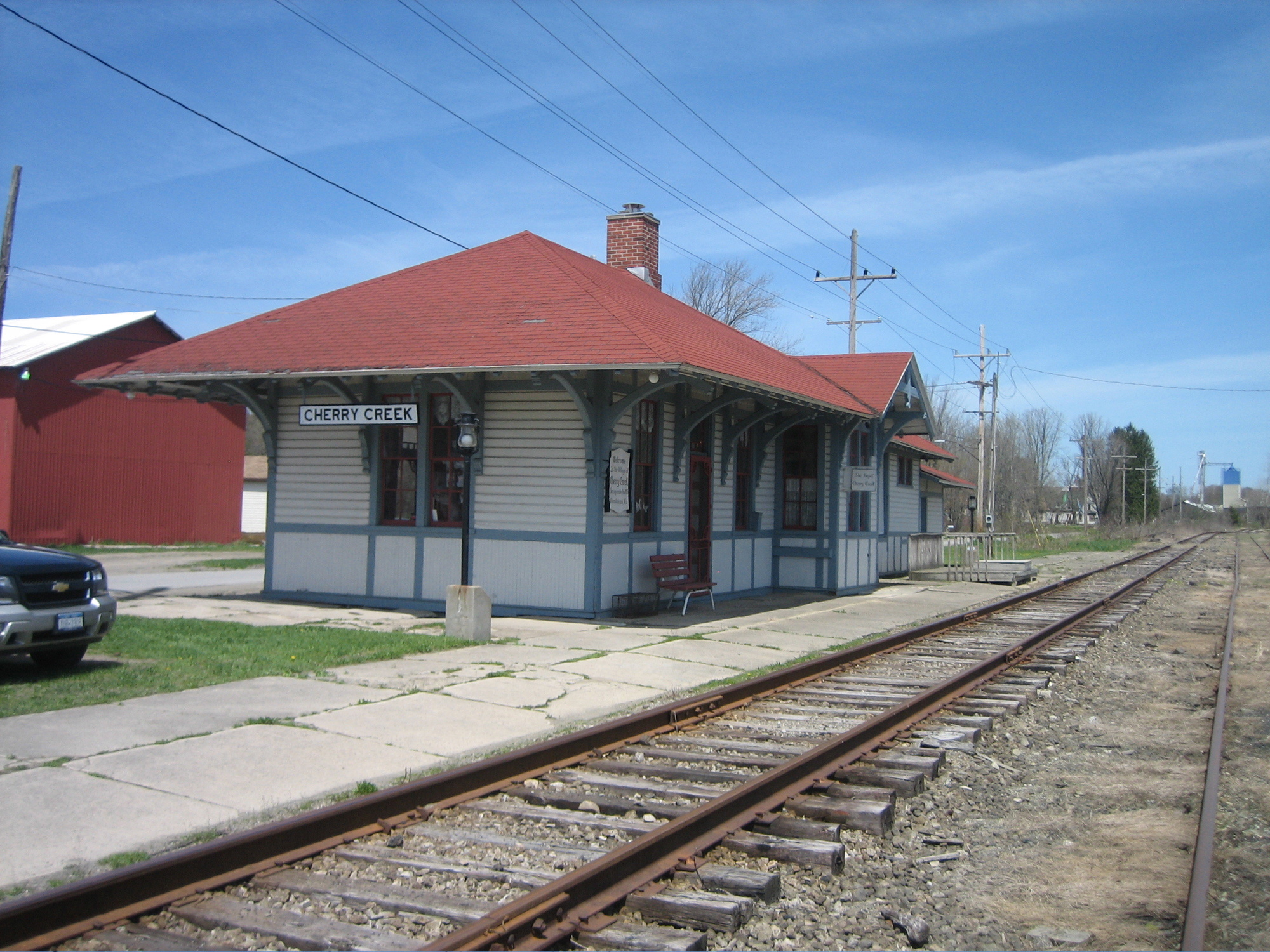 Cherry Creek station, Cherry Creek New York. The railroad station has been converted into a small shop for gifts, books, and souvenirs.